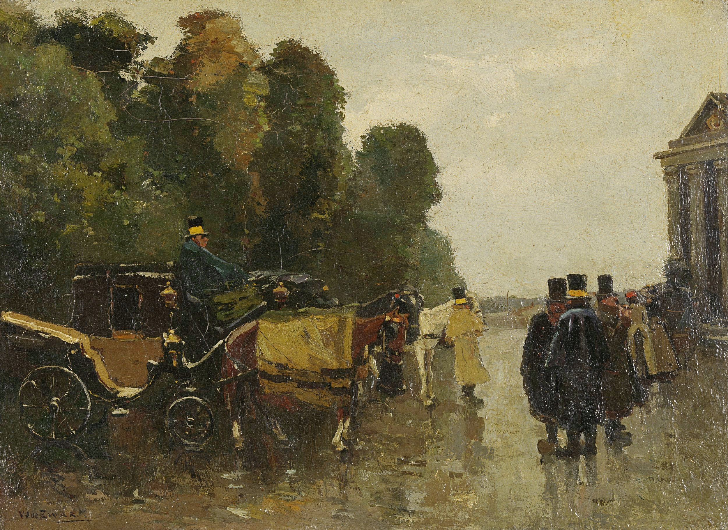 Willem de Zwart - Rijtuigen met wachtende koetsiers, 1890 to 1894